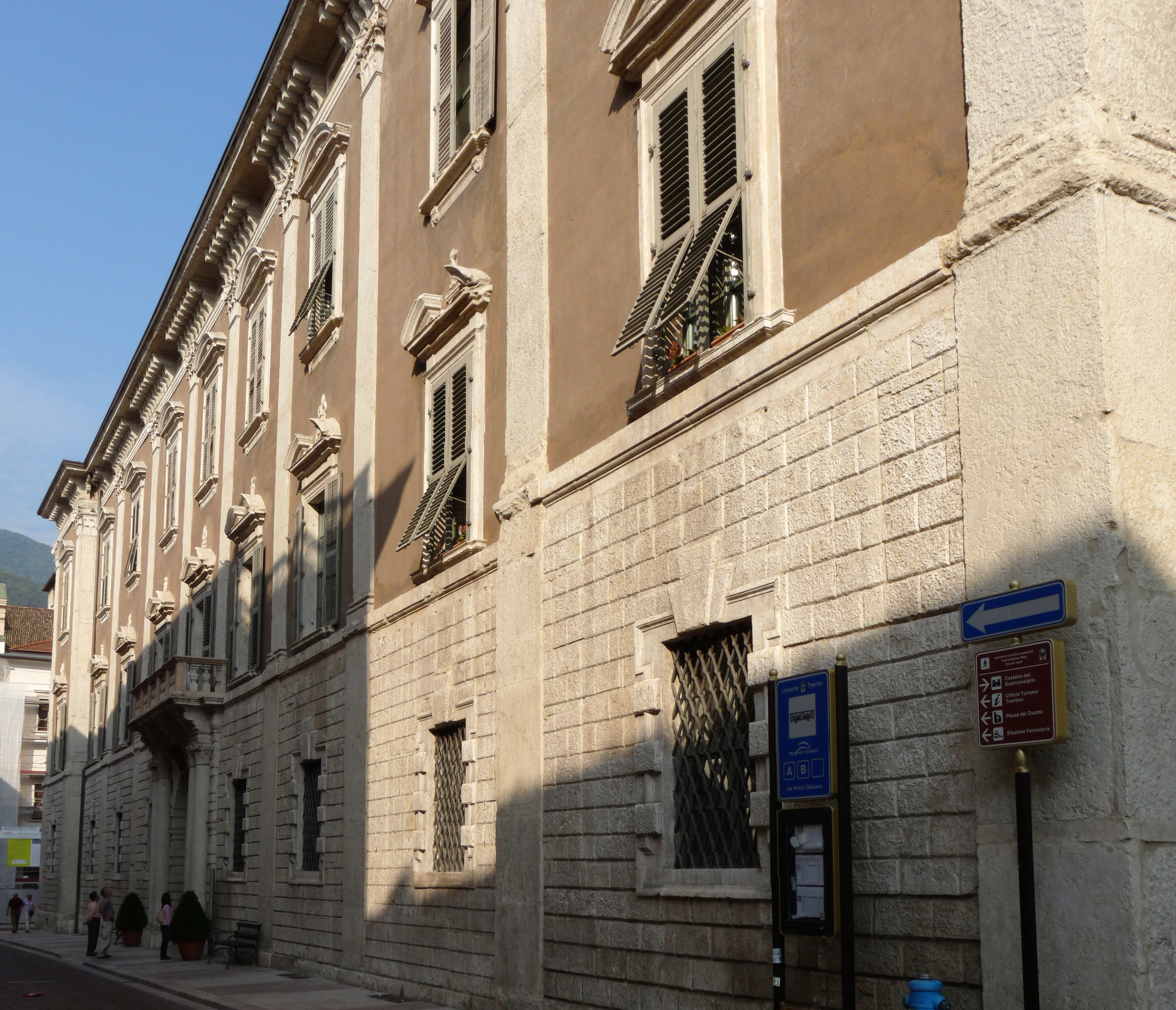 Trento (Italy): Palazzo Fugger-Galasso (early XVII century) from southeast